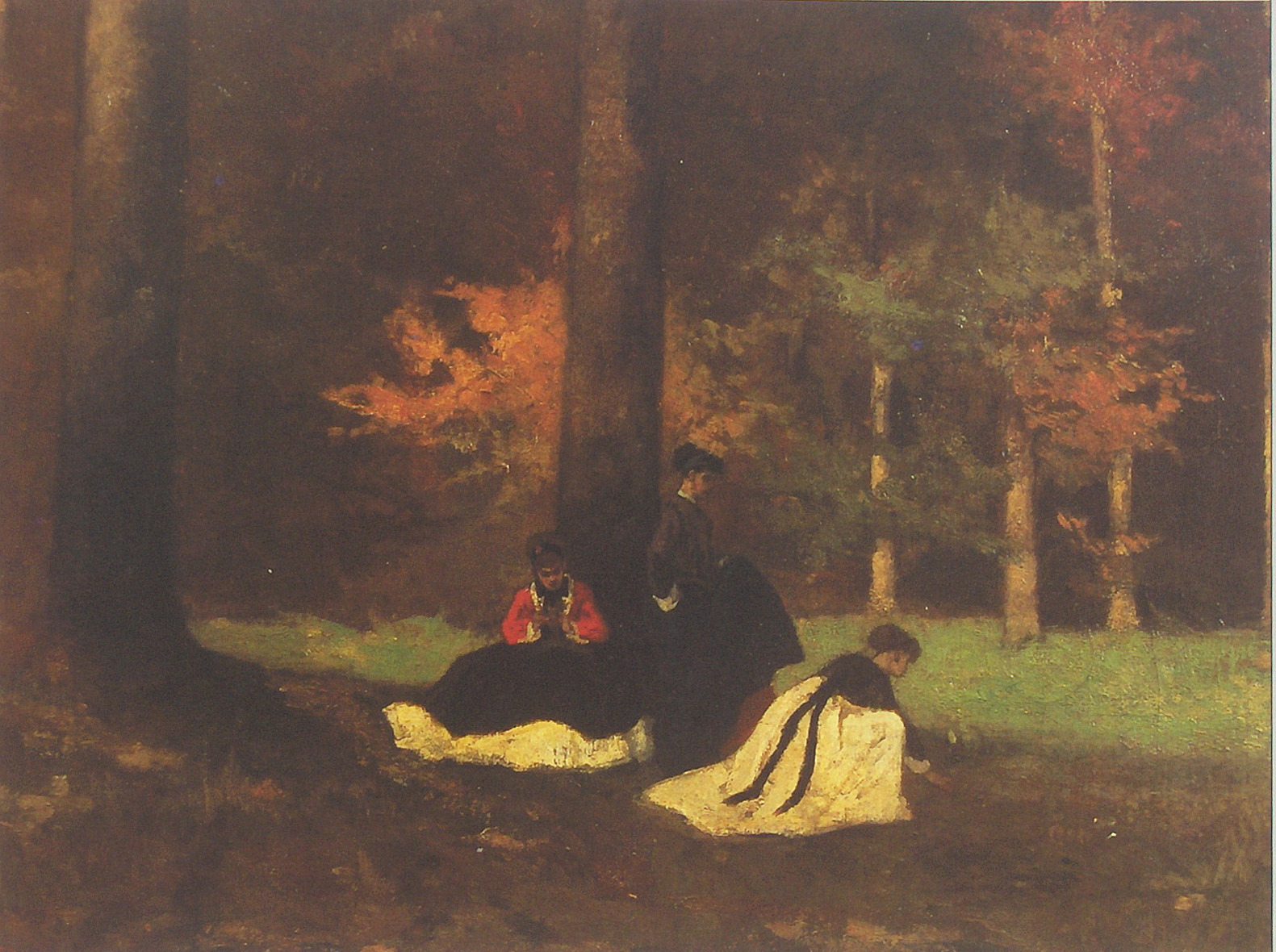 "Bosgezicht in hefst" (1860) olieverf op doek door de Belgische schilder Louis Dubois in samenwerking met Félicien Rops; 55 x 65 cm; gesigneerd; privébezit